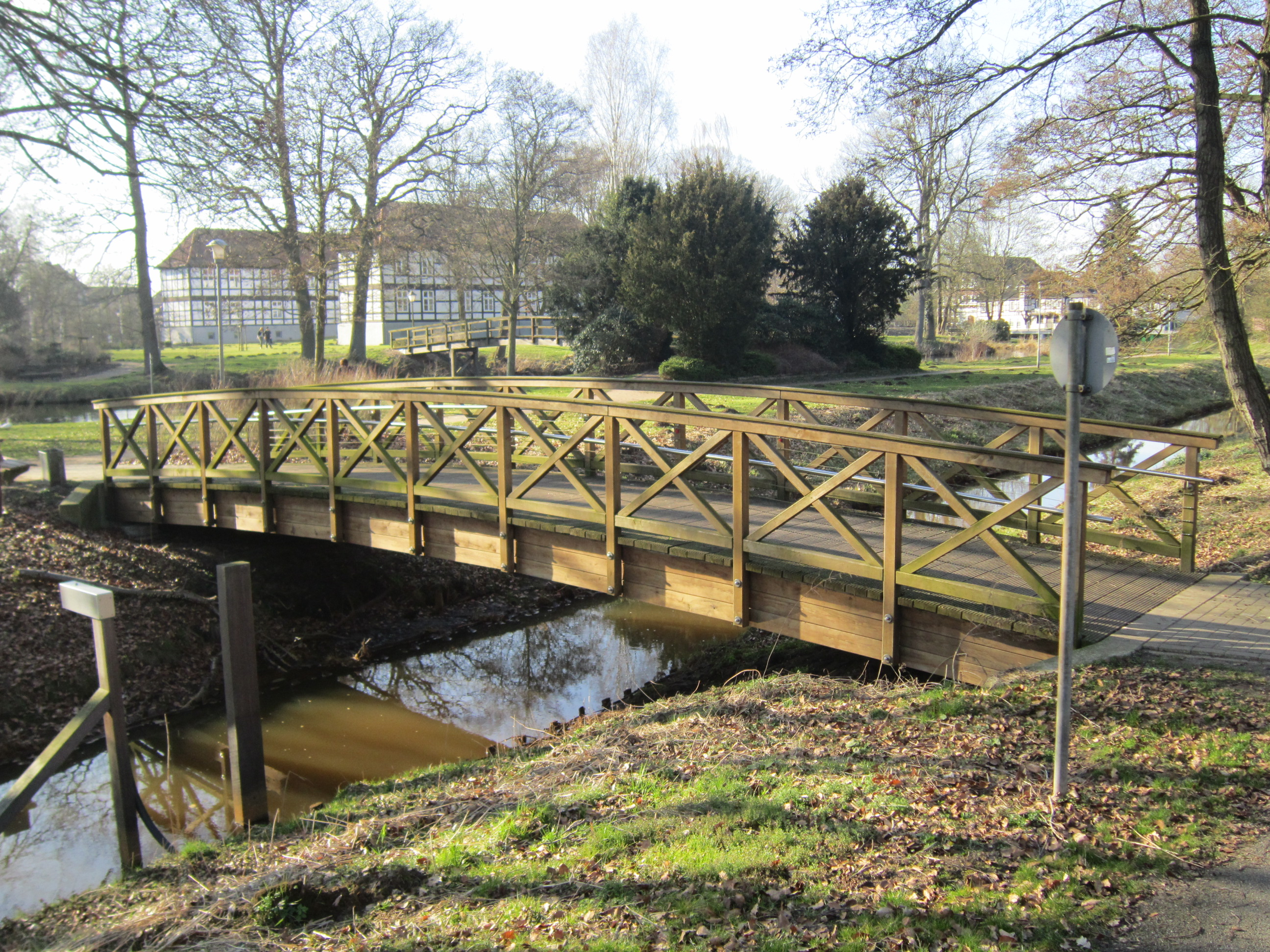 River Delme in Harpstedt; in the backgroung the "Amtshof"